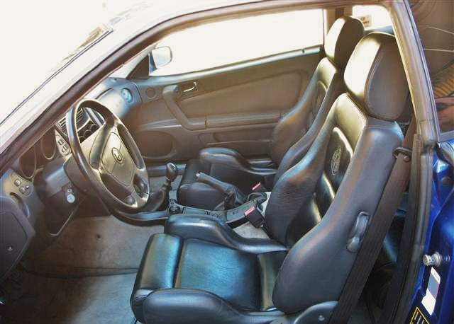 Alfa Romeo GTV